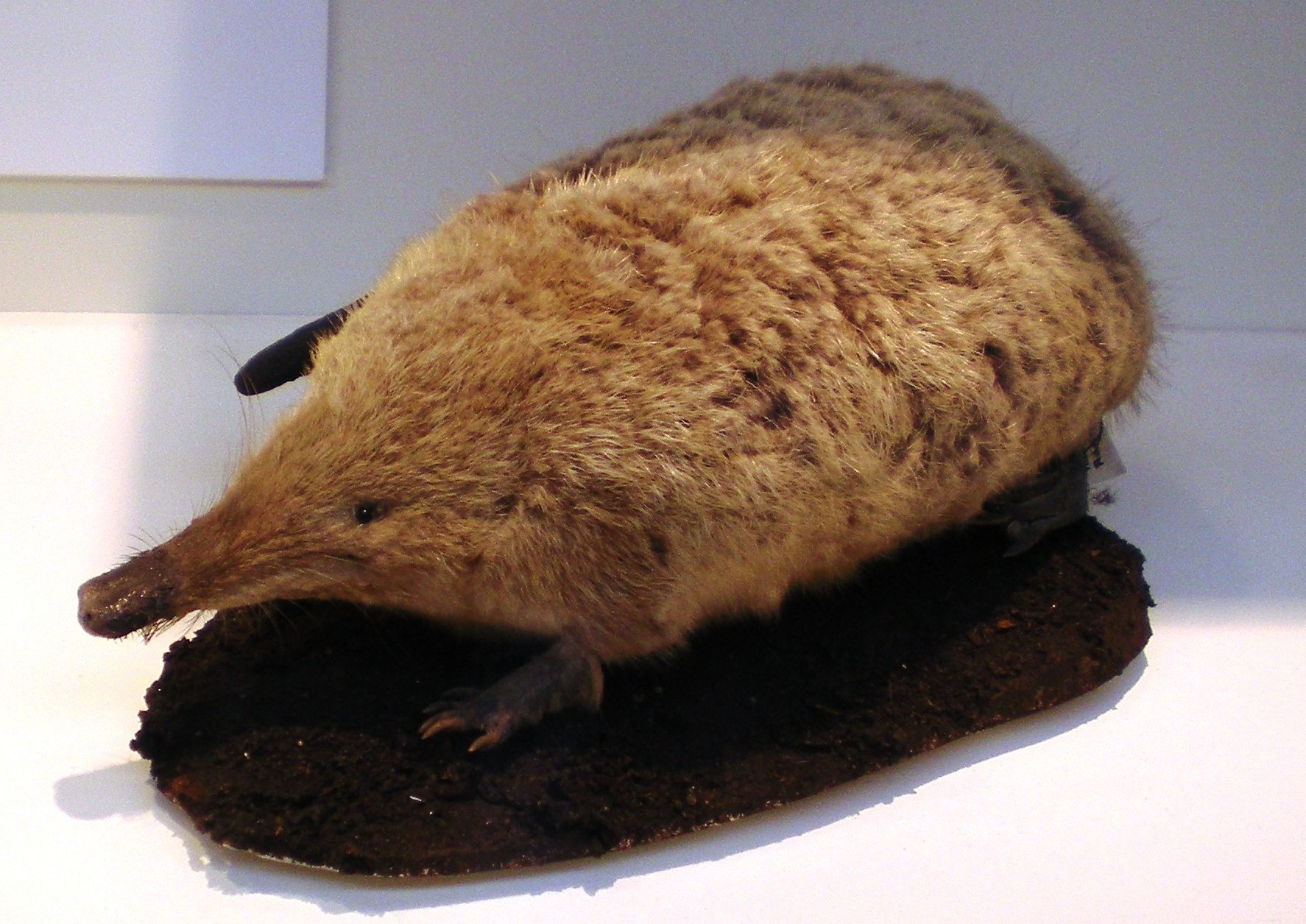 Desmana moschataNatural History Museum of London